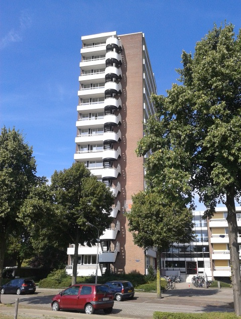 SSHN complex (student flat) Galgenveld, Nijmegen.